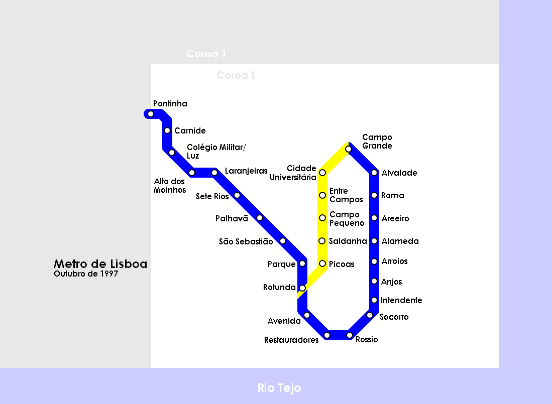 Map of Lisbon Metro in October 1997